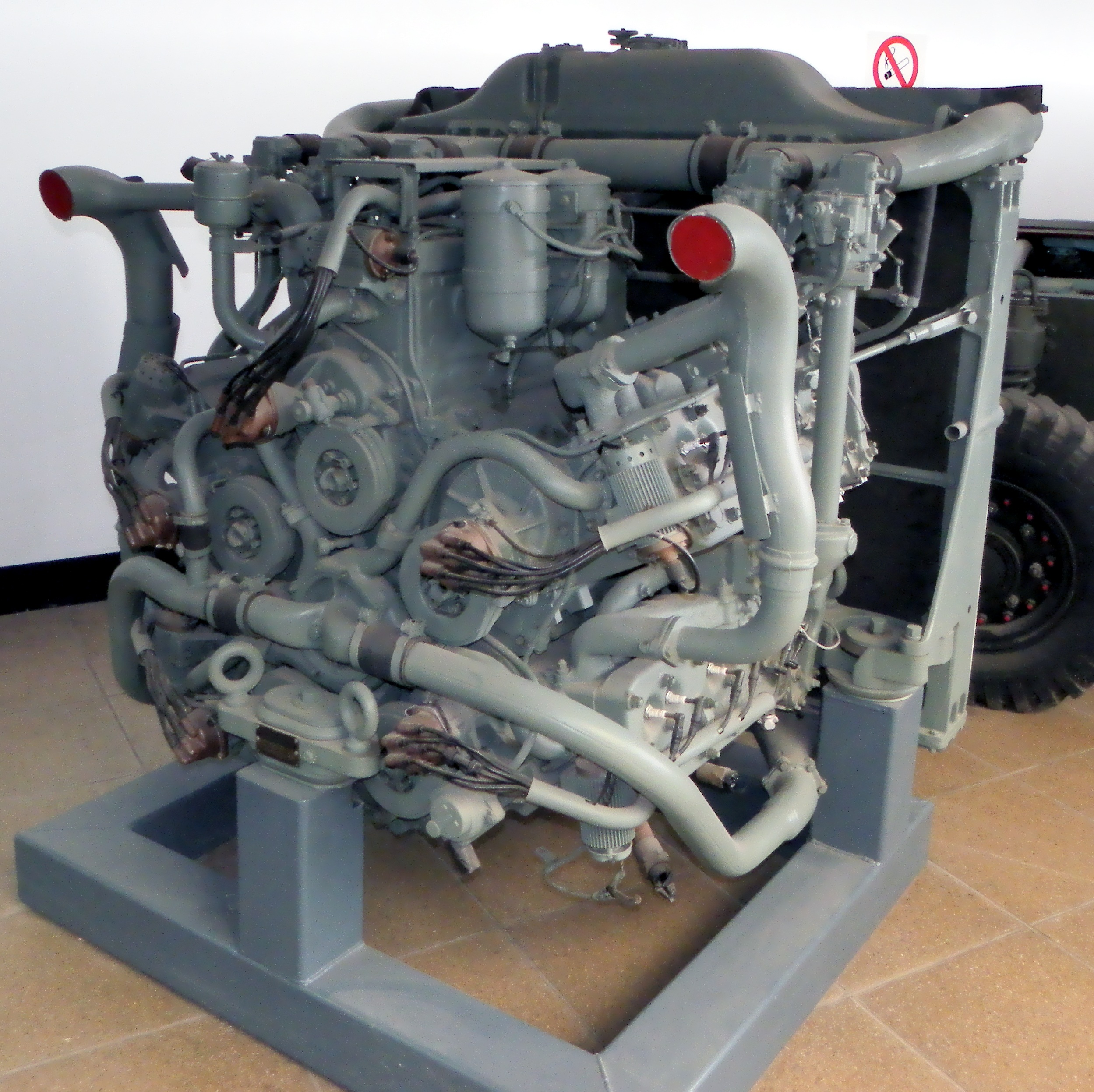 Chrysler A57 Multibank engine displayed at Imperial War Museum Duxford, Land Warfare Hall.